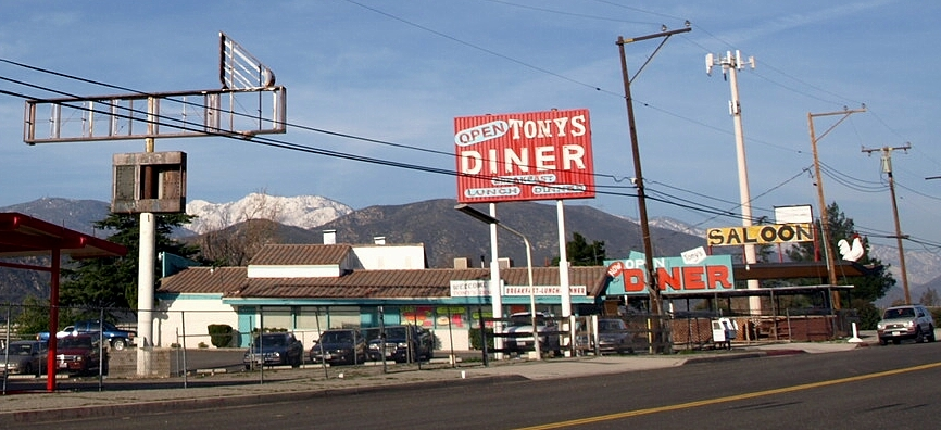 Roadside restaurants along Cajon Boulevard (formerly U.S. Route 66) in the neighborhood of Devore in San Bernardino, California. This segment of Cajon Boulevard was originally part of the U.S. Route 66 (later renamed U.S. Route 66/91/395) alignment until the late 1960s when Interstate 215 (originally named Interstate 15/15E) was built to bypass the existing route. The building in the middle of the picture, Tony's Diner restaurant (18291 Cajon Blvd.), was built in 1967 and the building behind it in the background is the Screaming Chicken Saloon bar (18169 Cajon Blvd.). {1} View from the northbound lane of Cajon Boulevard looking west-northwest.This photograph was taken with an Olympus E-510 DSLR camera and edited (sharpness) using ArcSoft PhotoStudio 5.5)